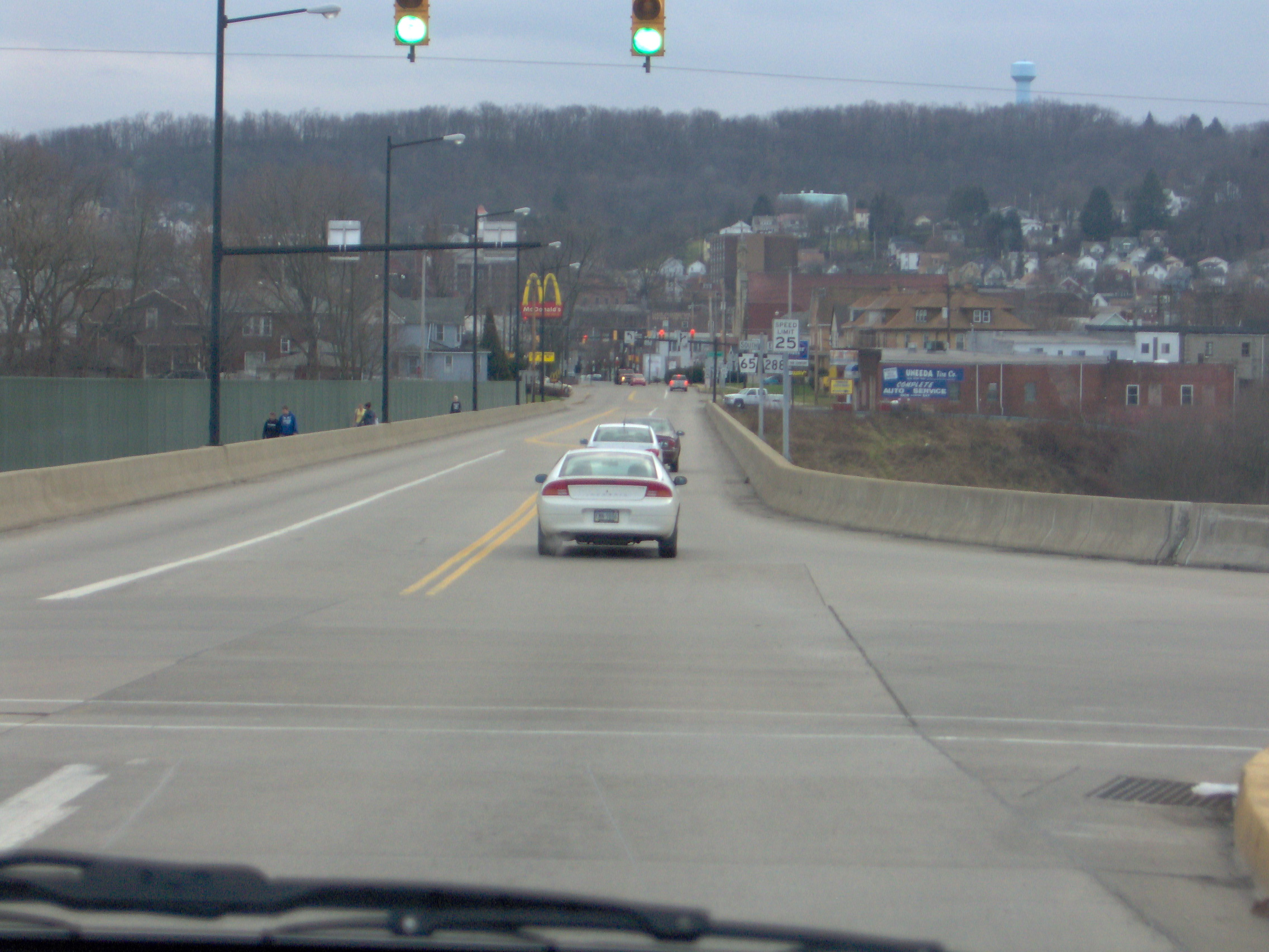 Crossing a bridge in downtown Ellwood City, Pennsylvania, which carries Pennsylvania Routes 65 and 288. Picture taken by Nyttend on 6 January 2007.